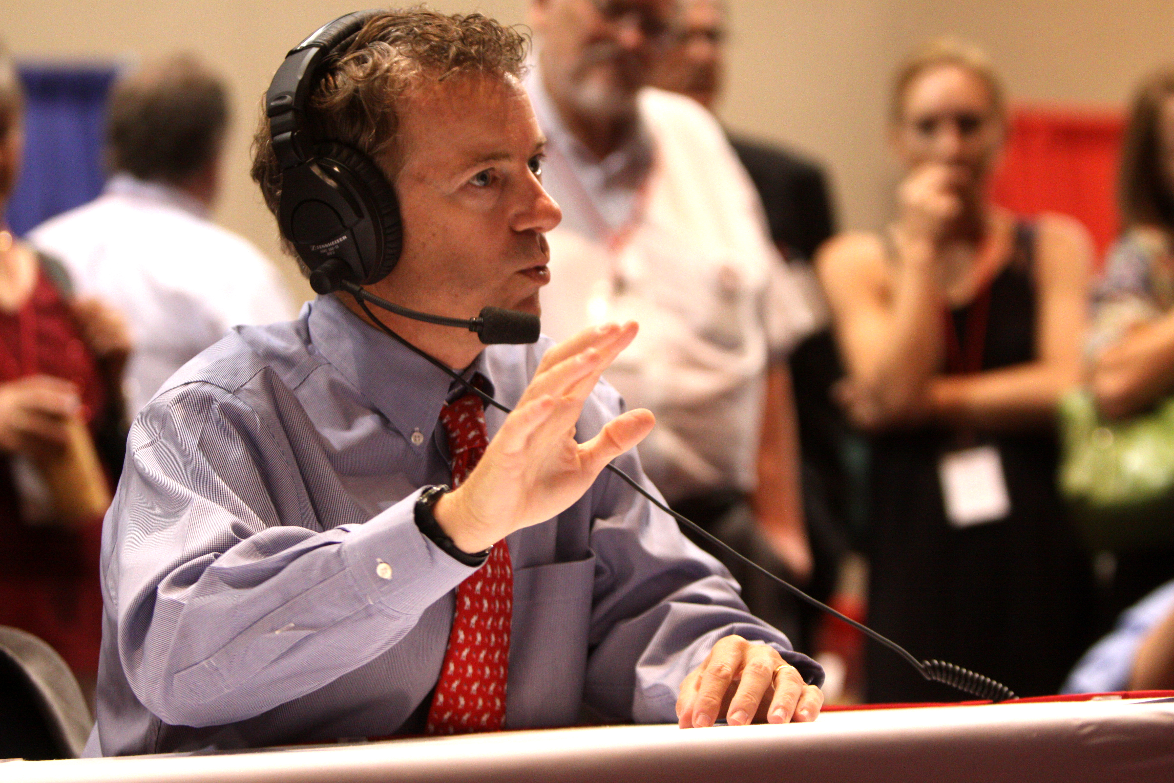 Rand Paul being interviewed by Jerry Doyle at LPAC 2011 in Reno, Nevada.